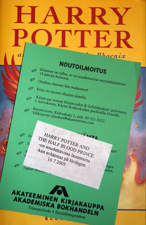 My wife did pre-order her copy of "Harry Potter and the Half Blood Prince" to make sure she'll get it right away ...